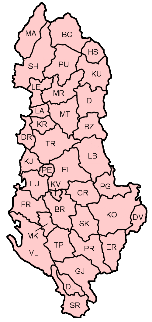 Map of the license plate codes of Albania. Made by User:Golbez.